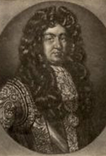 Christopher Monck, 2nd Duke of Albemarle (1653-1688)